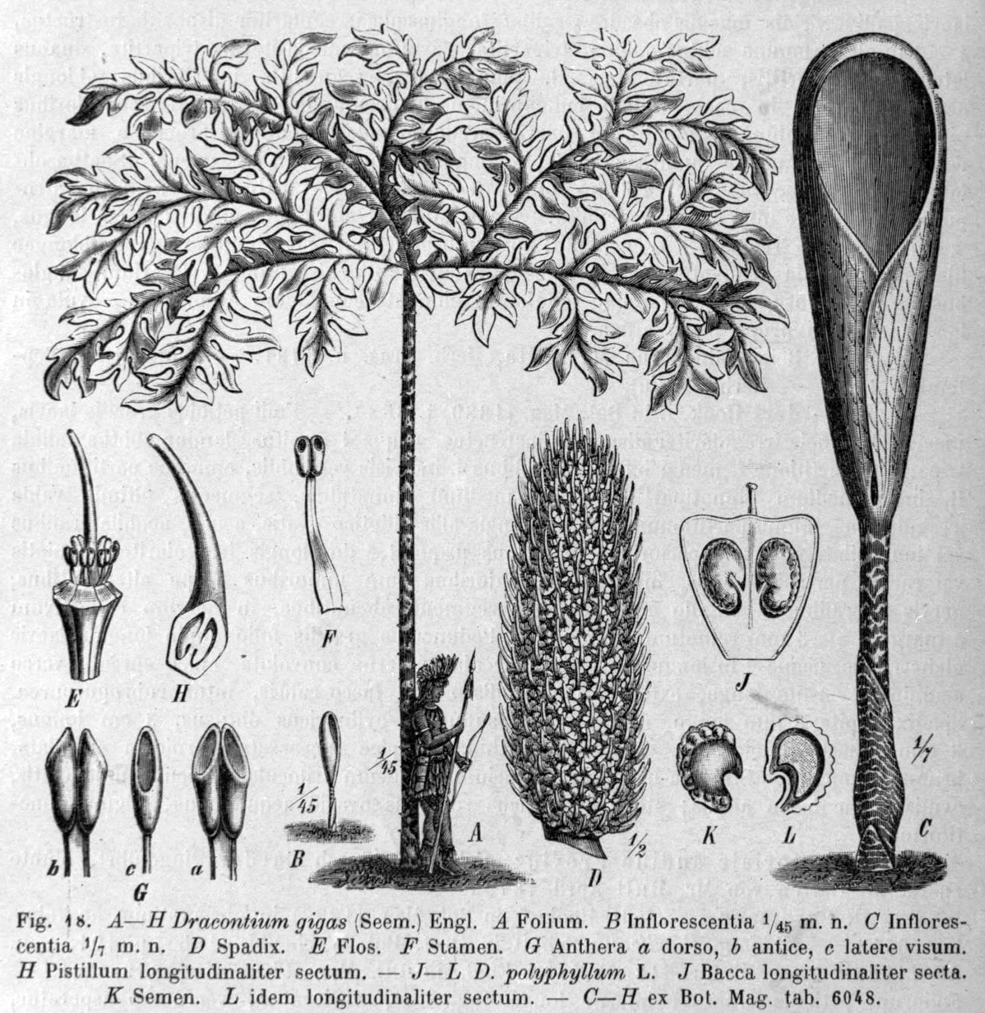 Dracontium gigas